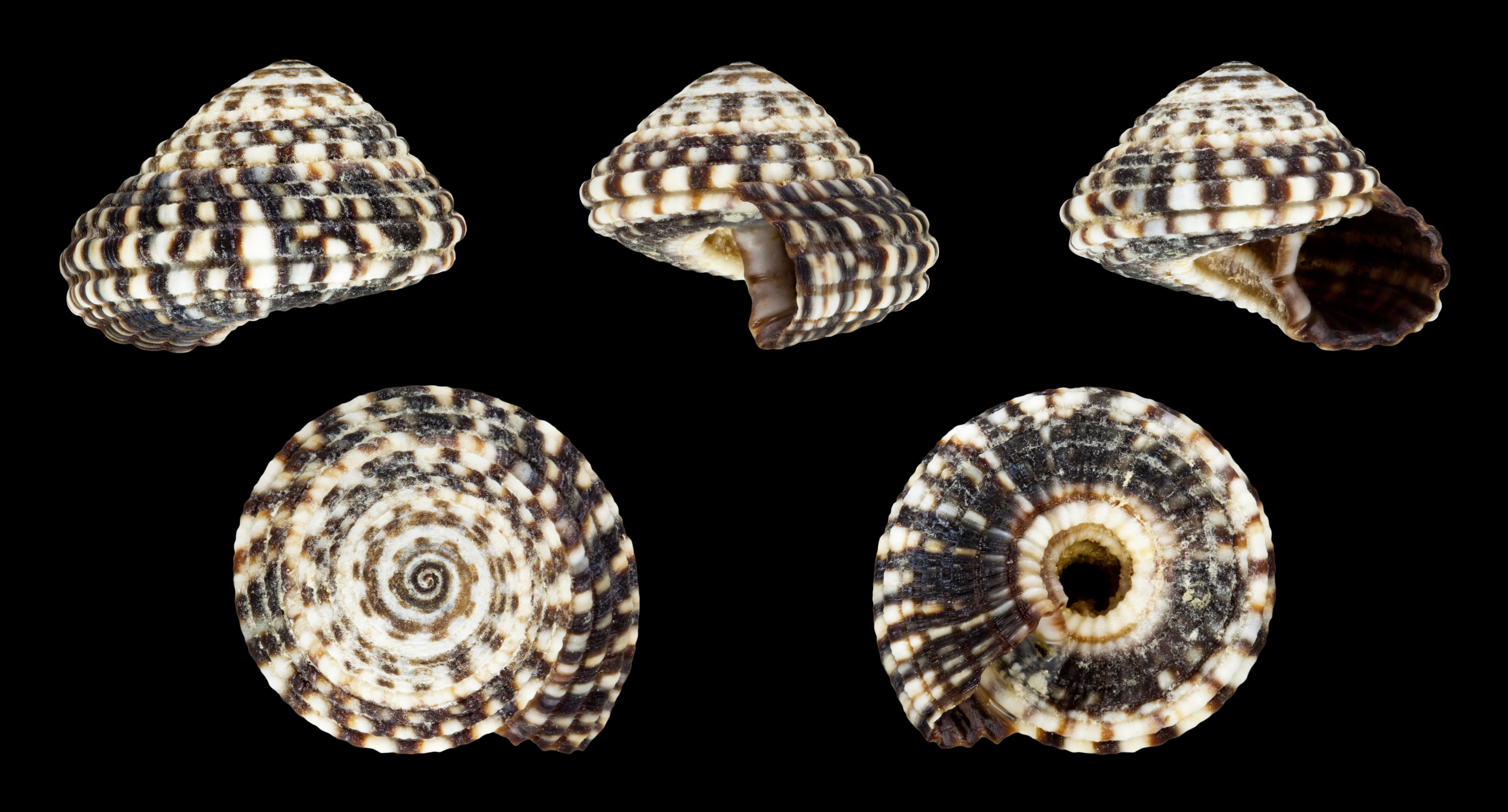 Heliacus variegatus (Gmelin, 1791); Diameter 1.5 cm; Originating from the Philippines; Shell of own collection, therefore not geocoded.